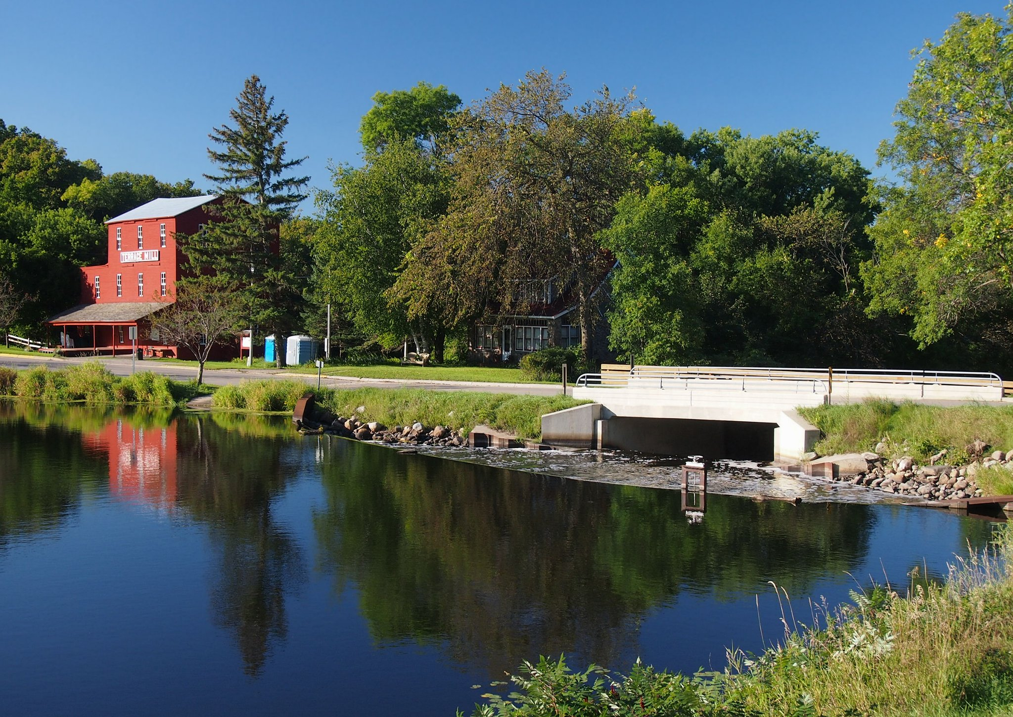 Terrace Mill Historic District with Terrace Mill (1903), Peter Takken House (1930), mill dam, and highway bridge, Terrace, Minnesota, USA. Viewed from the north.